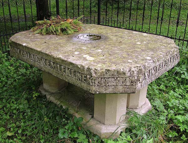 Kuncz Aladár monument in Marosvécs (Brâncoveneşti, Mureş County, Romania)